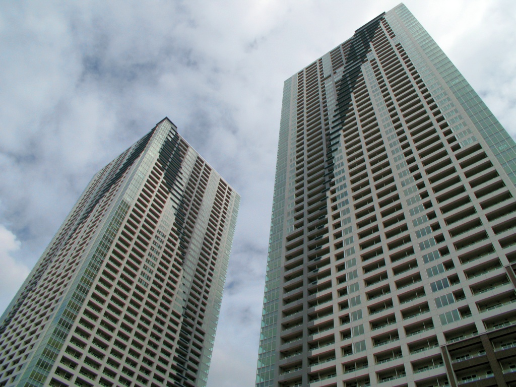 THE TOKYO TOWERS (the tallest residential complex in Japan)